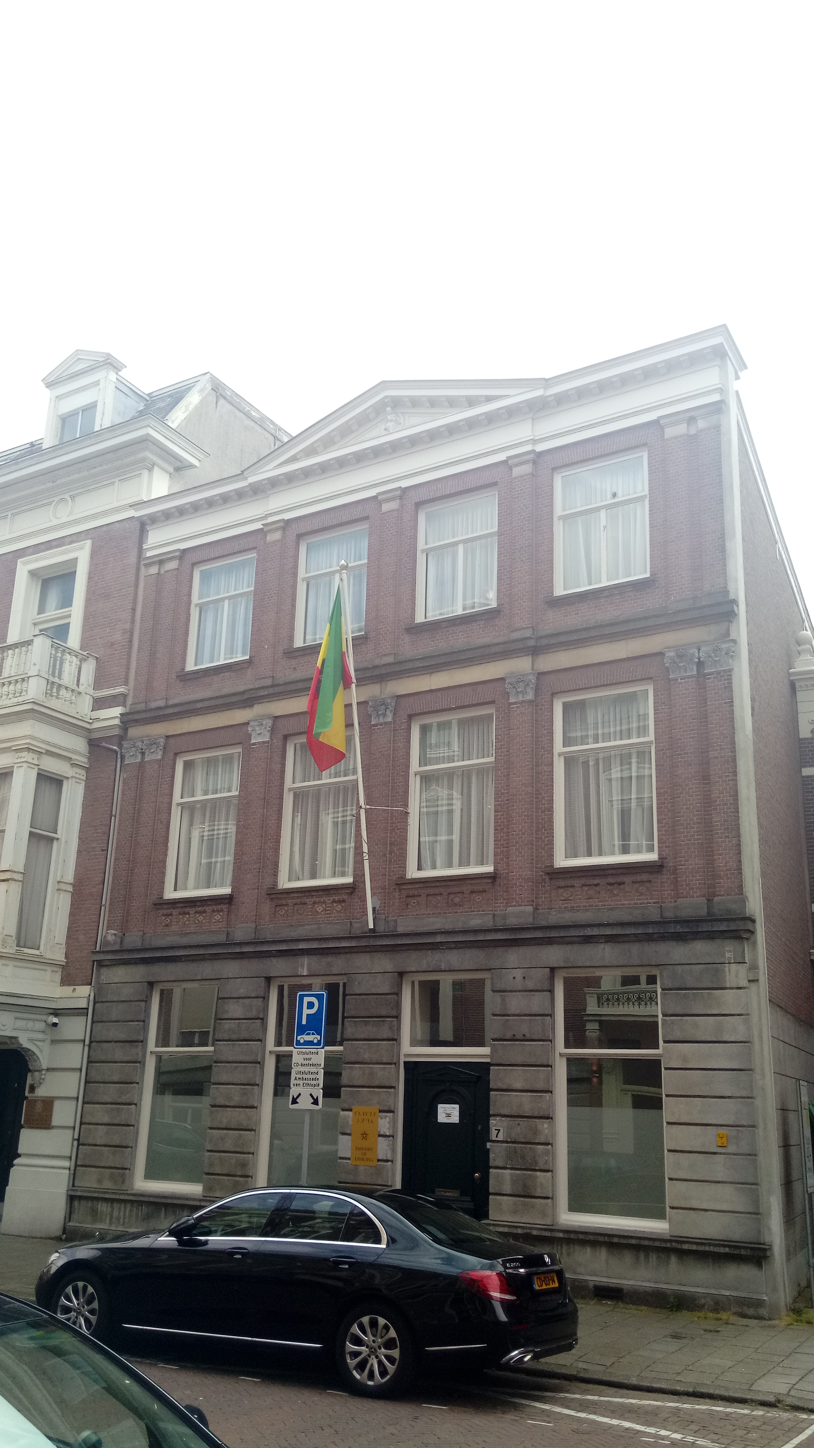 The Ethiopian embassy in the city of The Hague, South Holland.